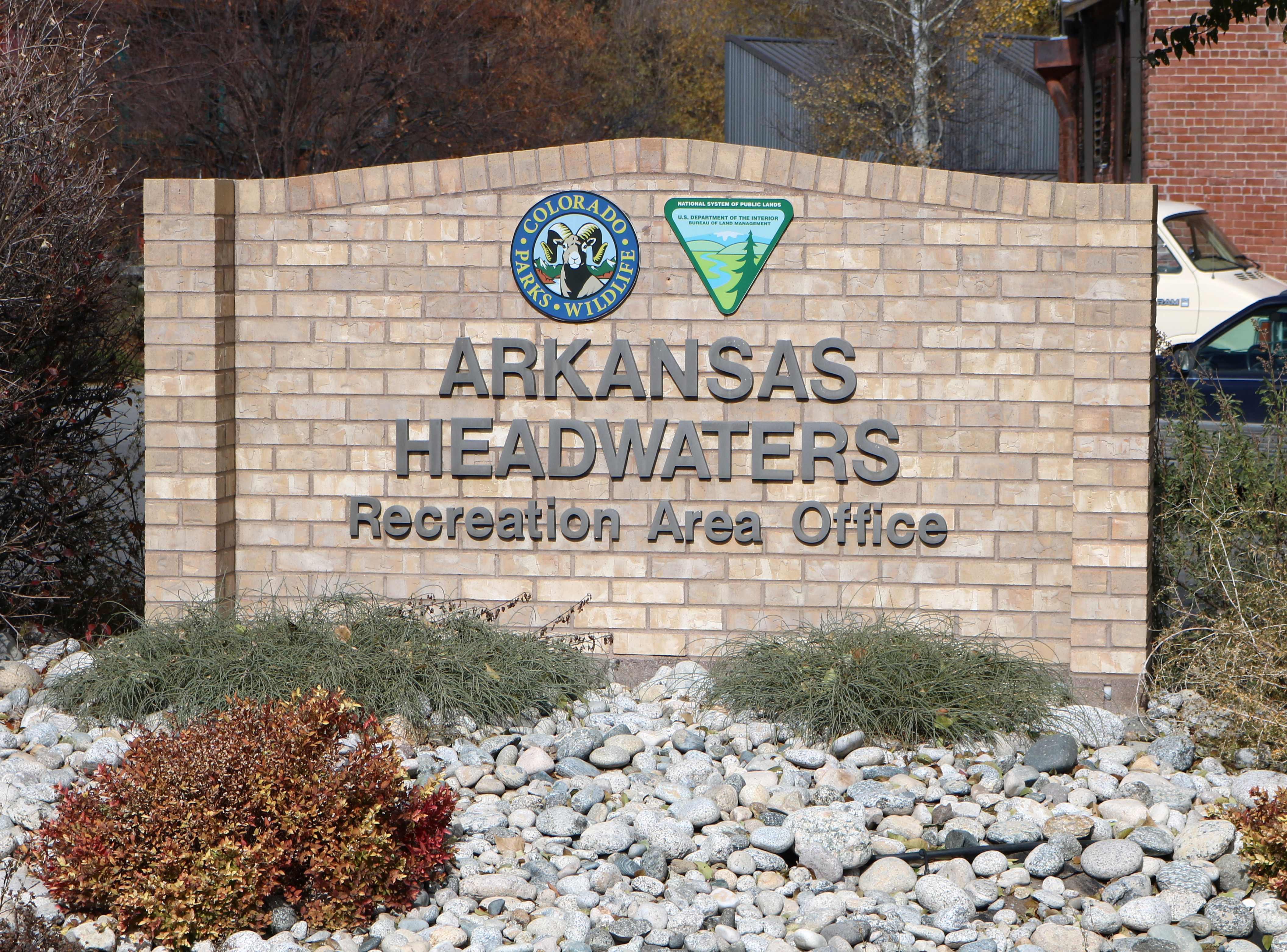 A sign for the Arkansas Headwaters Recreation Area Office, located at 307 West Sackett Avenue in Salida, Colorado.